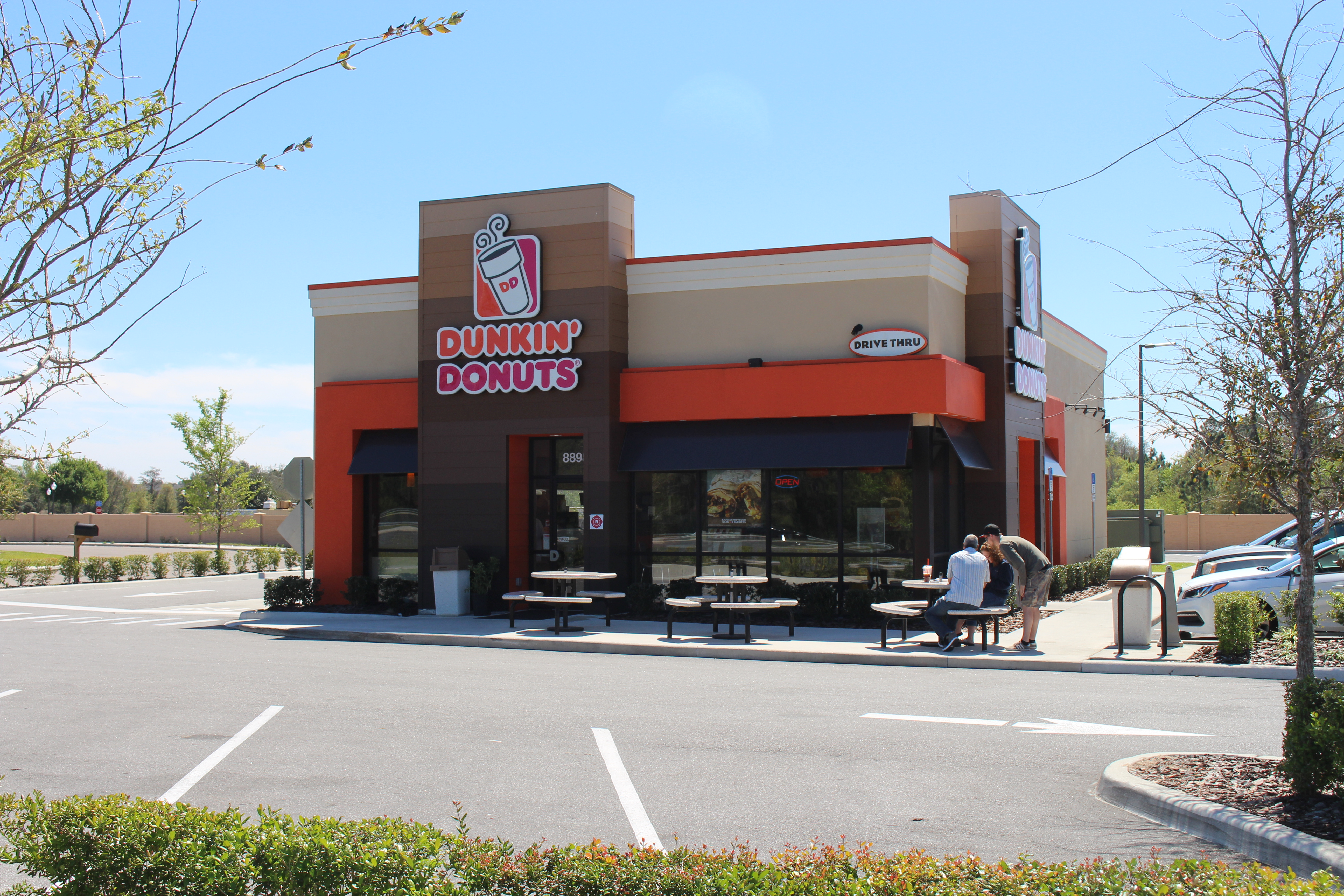 Dunkin' Donuts on US Route 192, in Four Corners, Osceola County, Florida